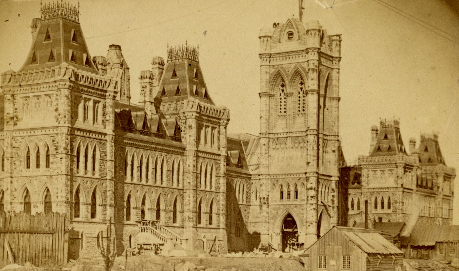 The Centre Block of Canada's Parliament Buildings under construction. Ottawa, Canada.